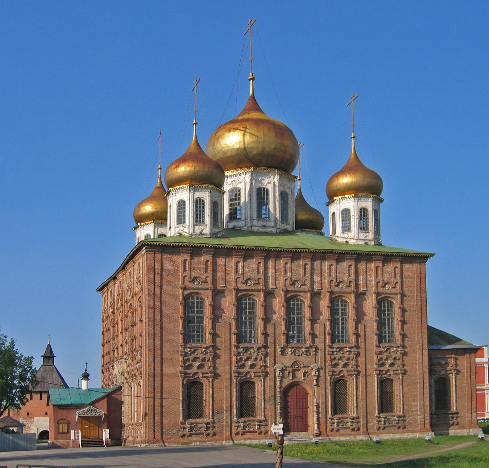 Dormition Cathedral in the Tula Kremlin, Russia